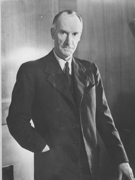 Catalog #: BIOD00101 Last Name: De Havilland First Name: Geoffry Sir Notes: Repository: San Diego Air and Space Museum Archive